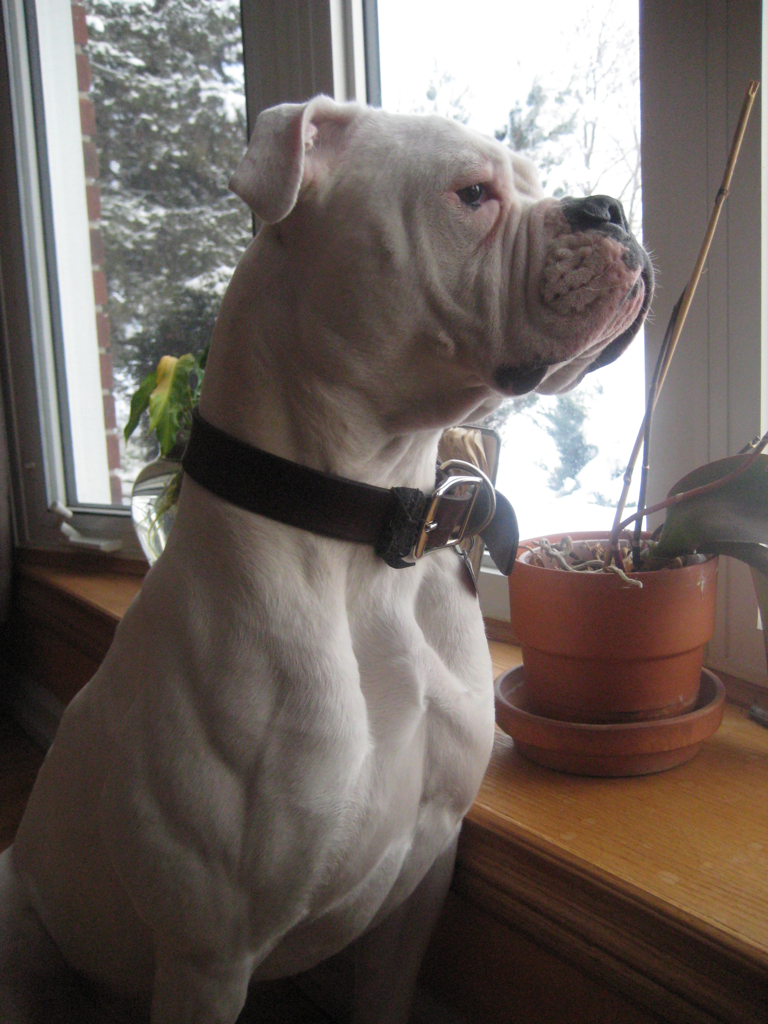 Steelcity "Chopem' Up" Kascha